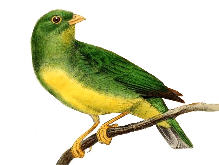 Blue-naped Chlorophonia (above), Yellow-collared Chlorophonia (below)